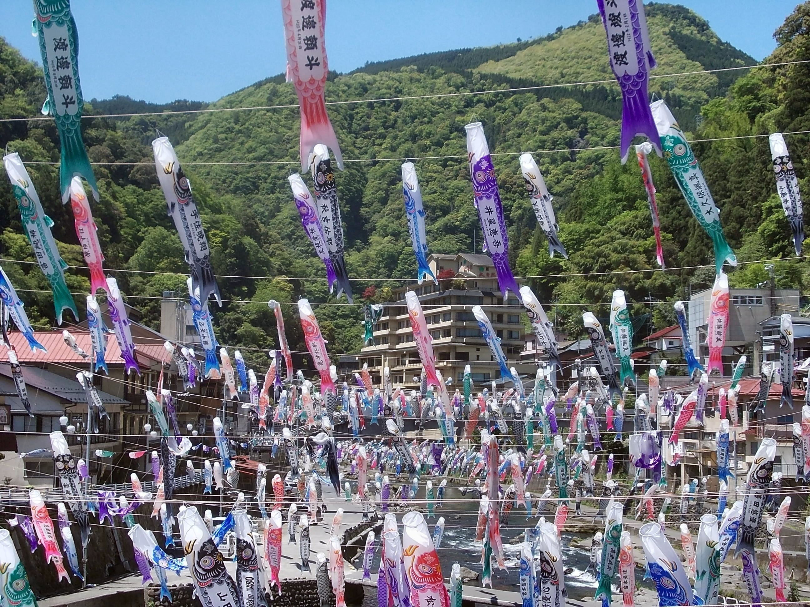 Koinobori in Tsuetate Onsen, Oguni, Kumamoto, Japan. Taken on 7 May 2014.